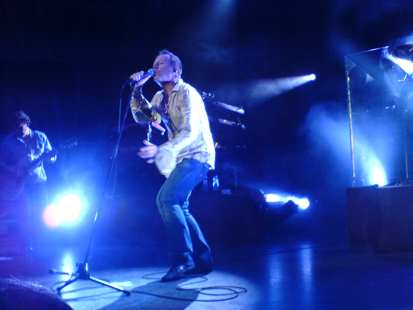 Simple Minds live at Rockefeller in Oslo on February 19, 2006.